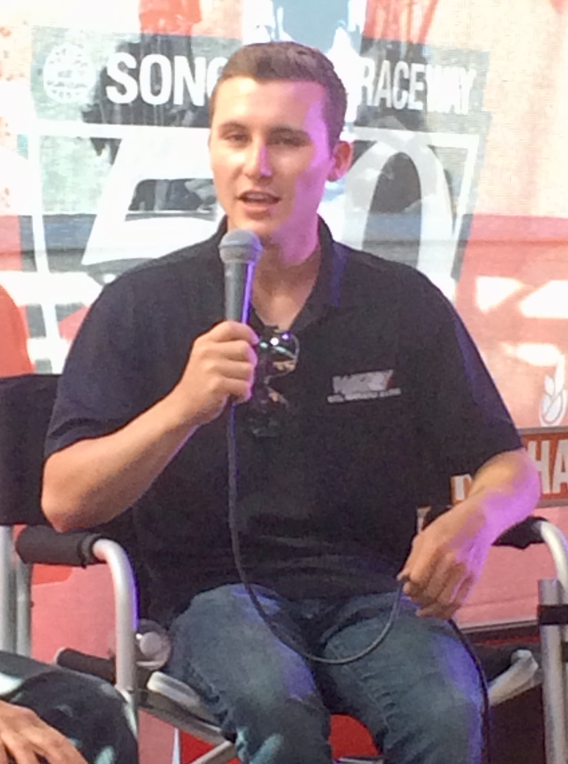 Will Rodgers at Sonoma Raceway in 2019